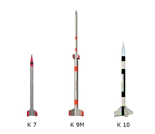 Kappa rockets shapes.